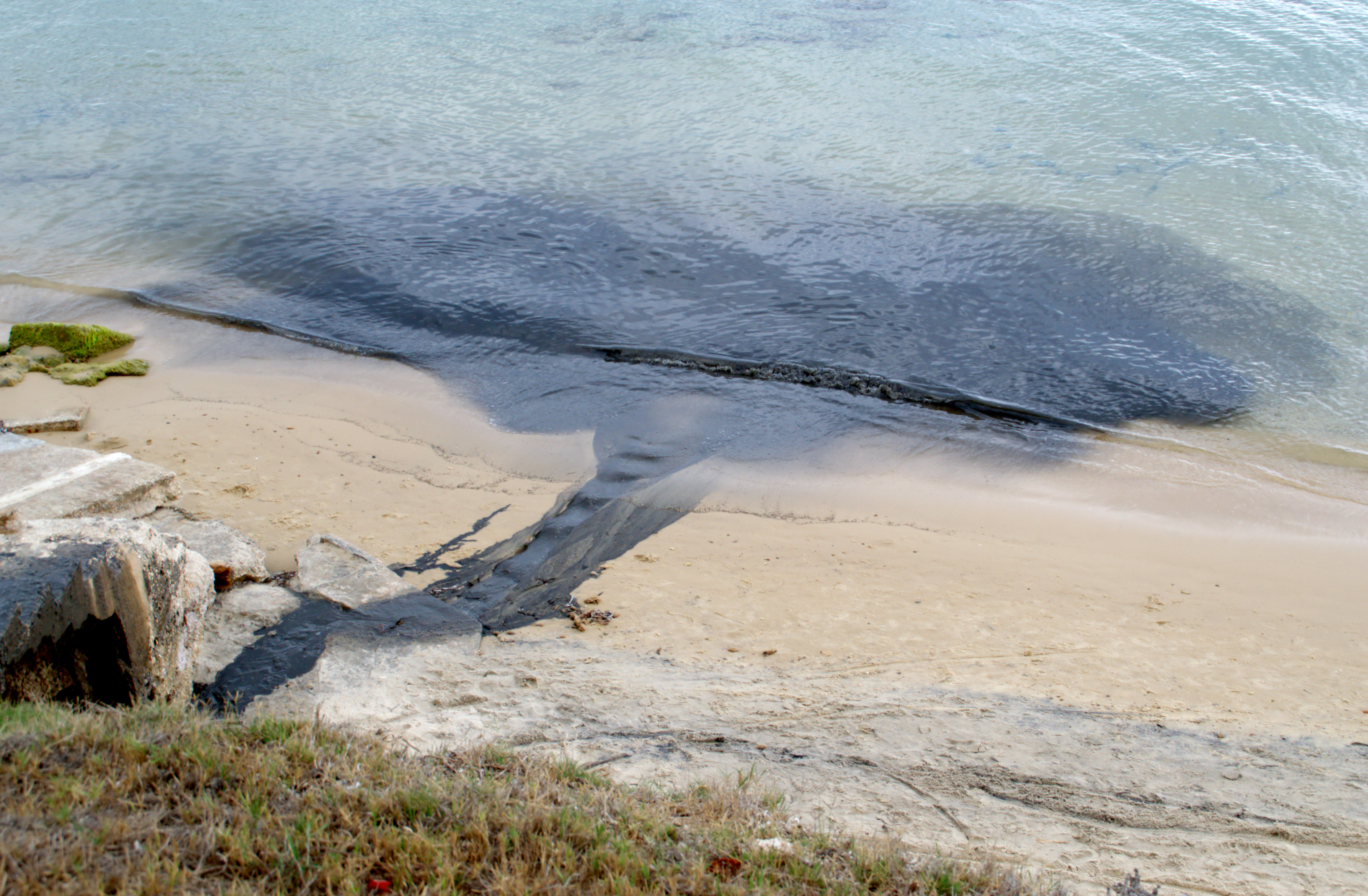 Pollution in the beach, Hammamet, Tunisia